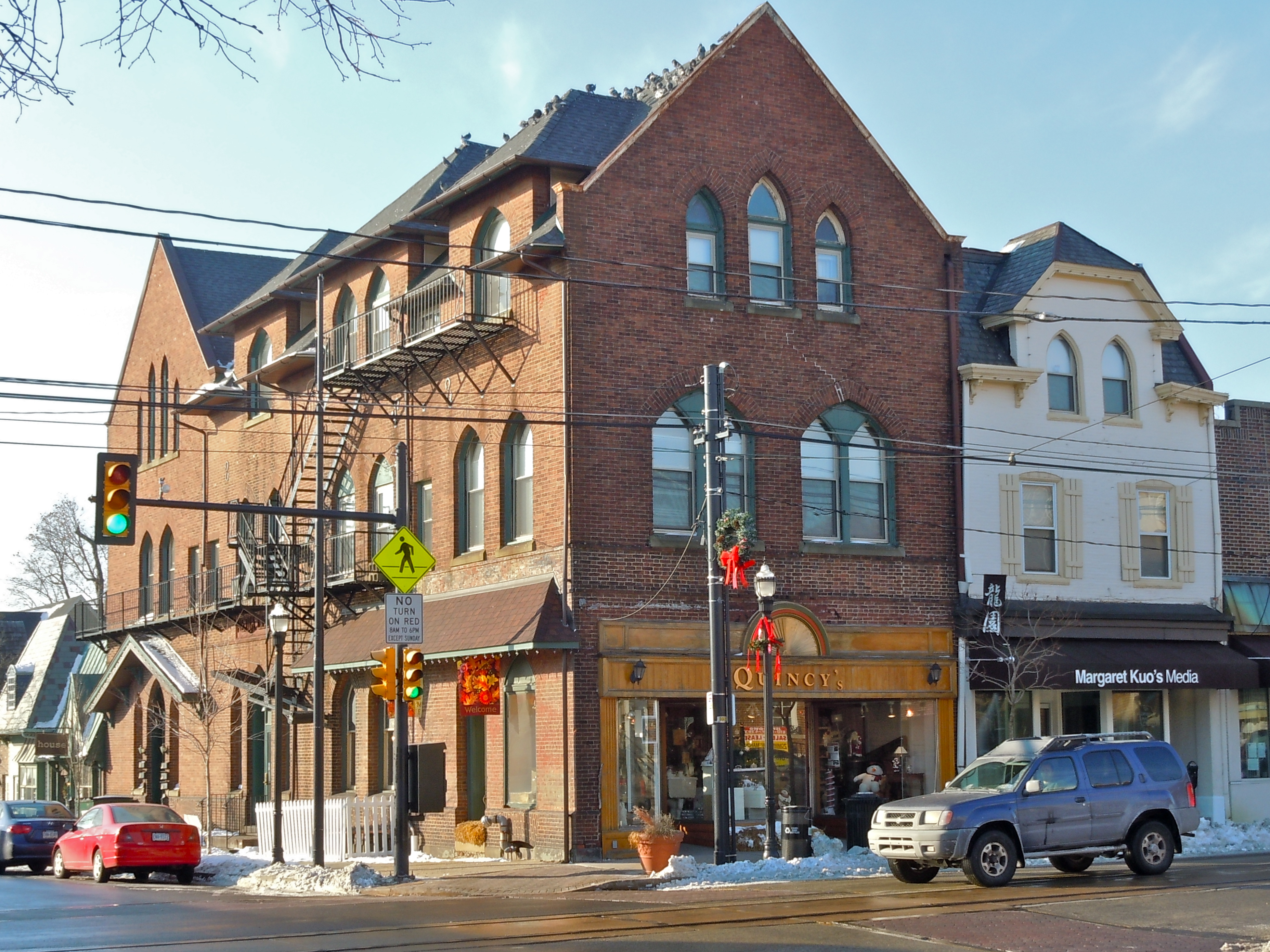 Building on State Street, Media, Pennsylvania. This is the "Ledger" Building. The name is carved in stone above the door near the red car, behind the streetlamp, and just below the side fire escape (in other words - not really visible in this photo. Built 1895 {[1])